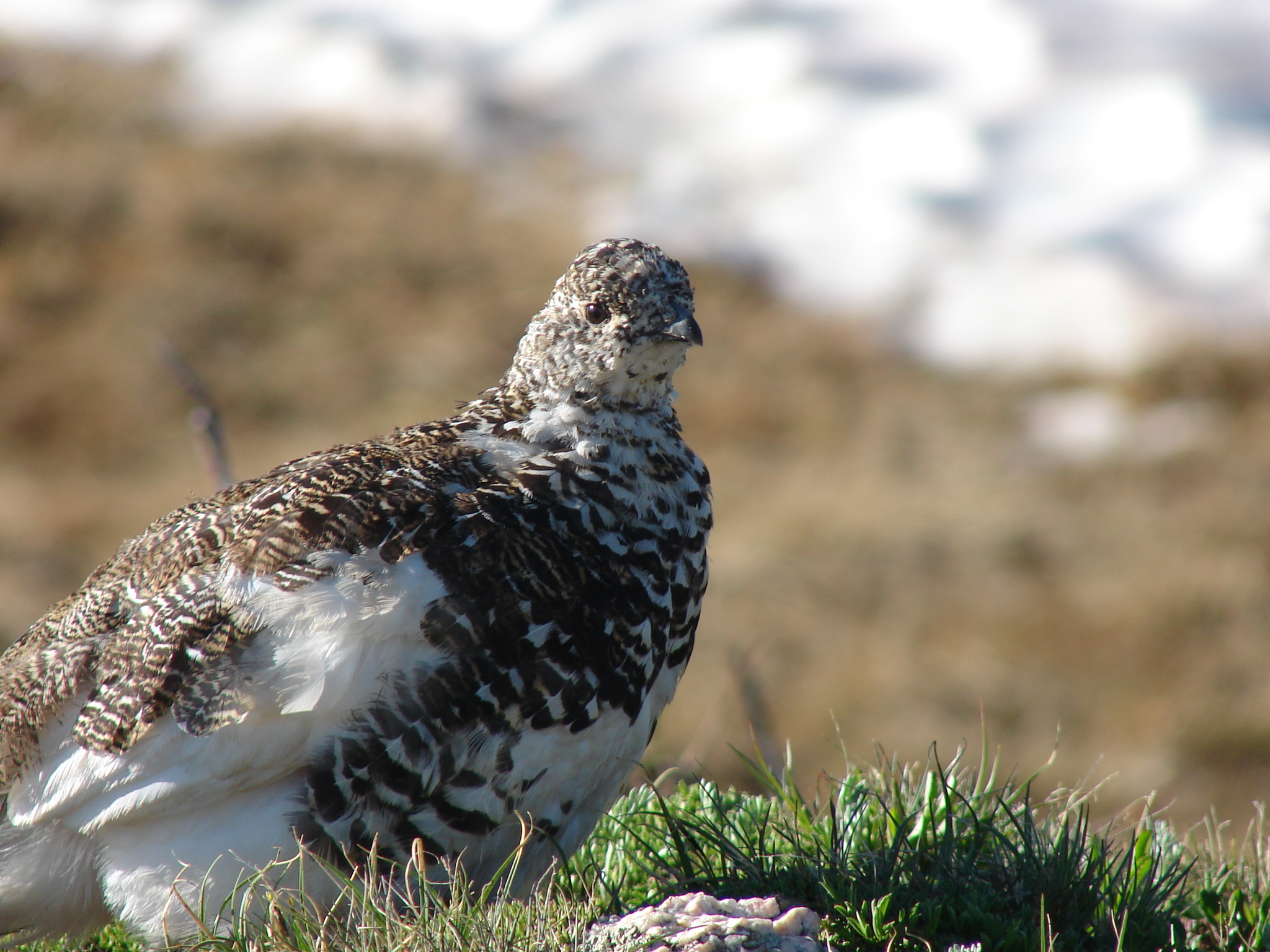 Male and female white-tailed ptarmigan share similar body size, shape, and winter plumage, with adult body lengths up to 13.4 inches (34 centimeters) and body masses up to 0.9 pound (425 grams). Both the southern and Mt. Rainier white-tailed ptarmigan are white in winter and brown in summer, the feathers changing color with the seasons to camouflage the birds. Although the body feathers change color, the white-tailed ptarmigan is named for its perpetually white tail feathers, a morphological trait that distinguishes it from other ptarmigan species. During the winter, males and females are stark white and difficult to distinguish from the background of snow. In the summer during the breeding season, males turn a lighter color of brown or gray than females and develop a dark band of feathers on the breast that resembles a necklace. During the winter, the southern and Mt. Rainier white-tailed ptarmigan feed on exposed willows above the snow and dig roosts, or burrows, into the soft snow as protection from wind and weather. During the summer, the white-tailed ptarmigan feeds on willows and other alpine vegetation. White-tailed ptarmigan require cool temperatures, rocky areas, soft snow, and the presence of willows. The southern and Mt. Rainier white-tailed ptarmigan spend their entire lifecycles in alpine habitats and are well adapted to survive in the cold, arid, and open alpine environments. Adaptations of the white-tailed ptarmigan to these alpine environments include its cryptic plumage, low metabolic rates, and heavily feathered feet that act as snowshoes. Photo Credit: Peter Plage / USFWS